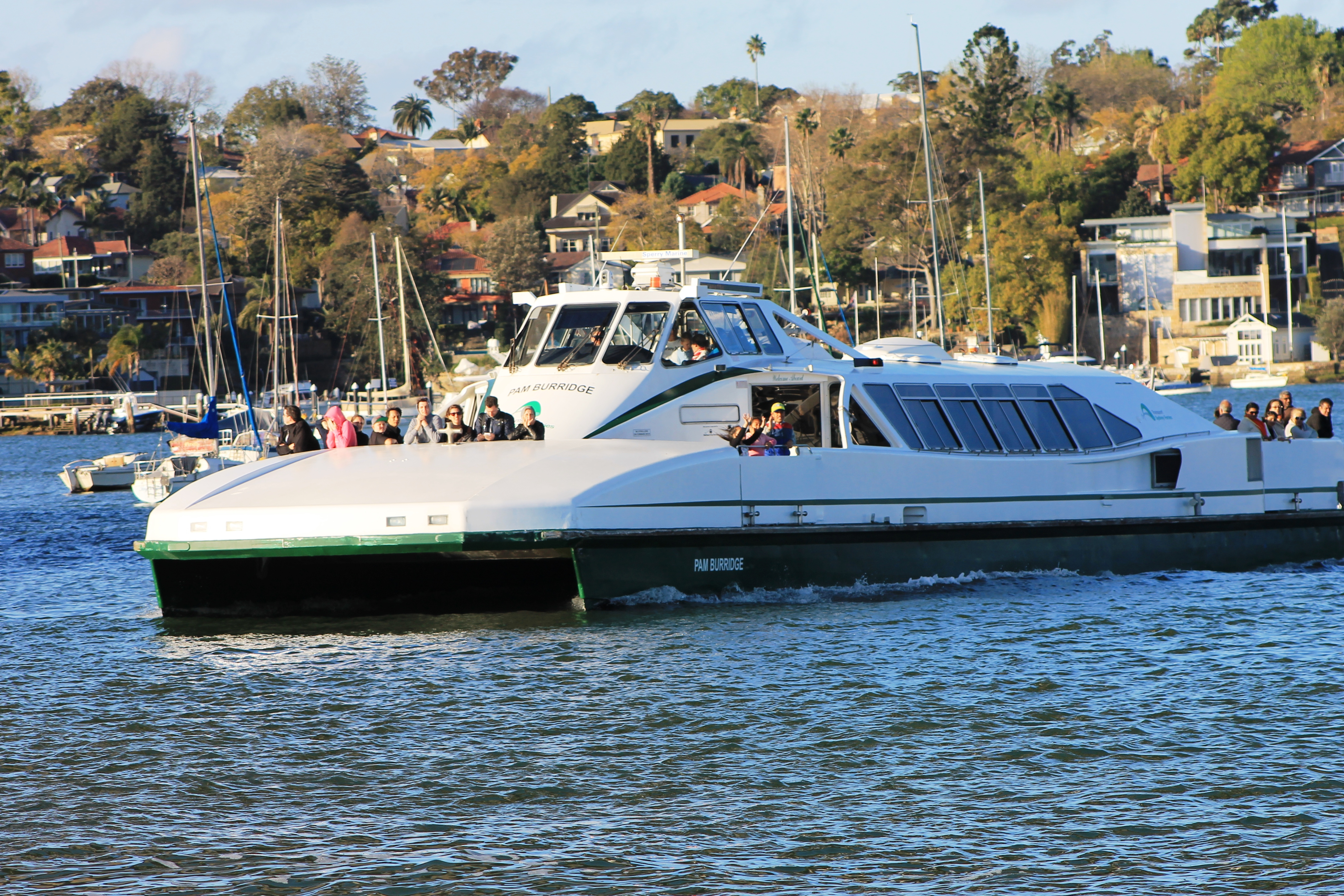 HarbourCat ferry Pam Burridge